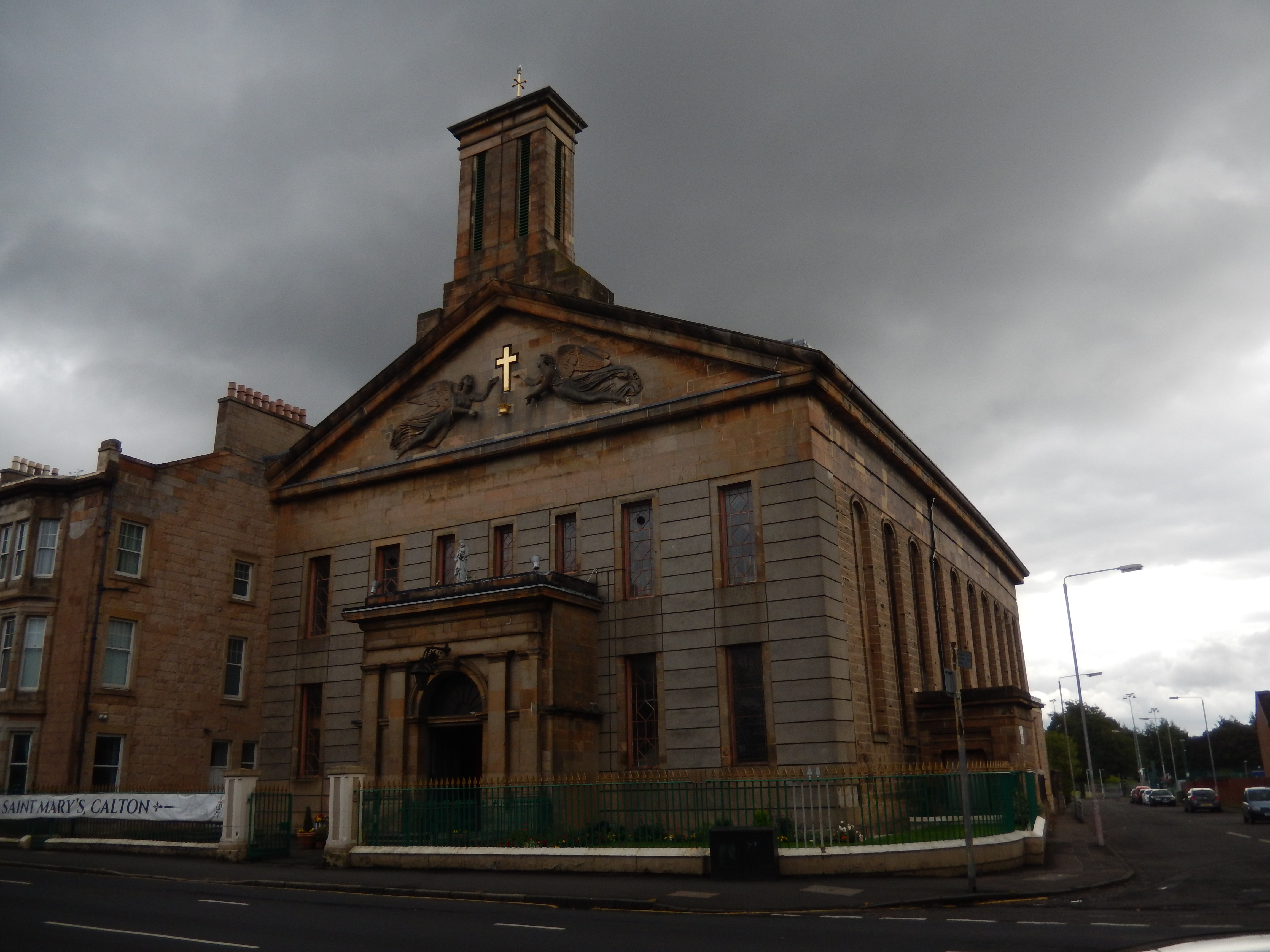 Saint Mary's, Calton. A catholic church on Abercromby Street in the east of Glasgow. Wikidata has entry Q7401798 with data related to this item.